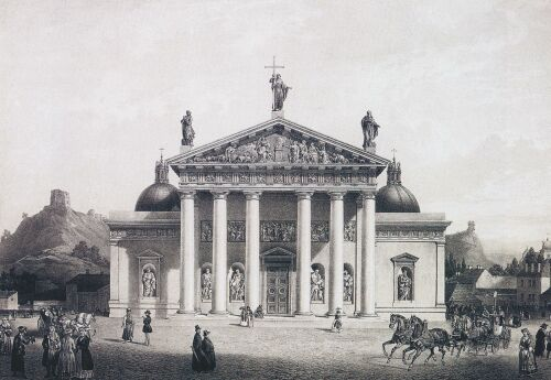 Vilnius Cathedral